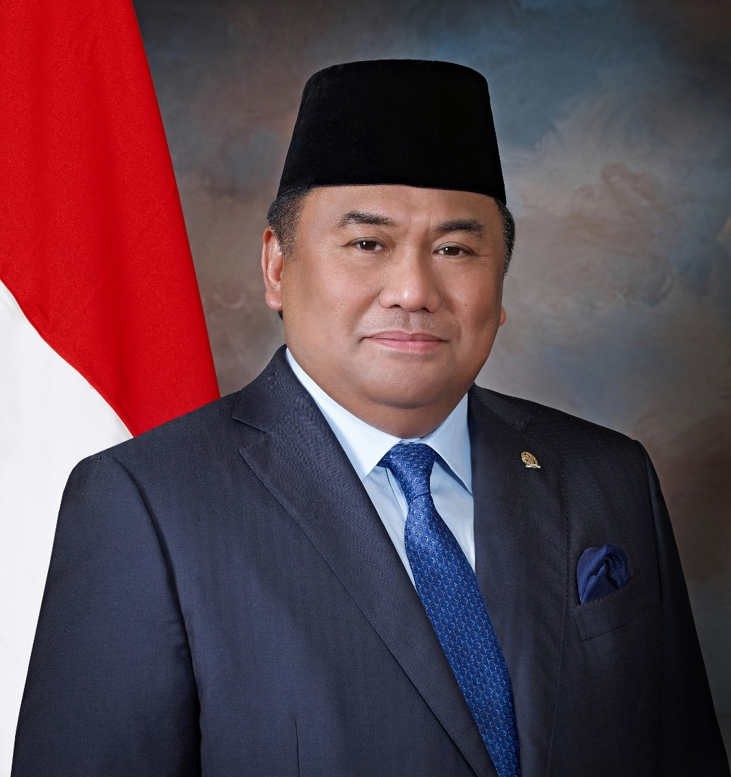 Rachmad Gobel as Deputy Speaker of the People's Representative Council